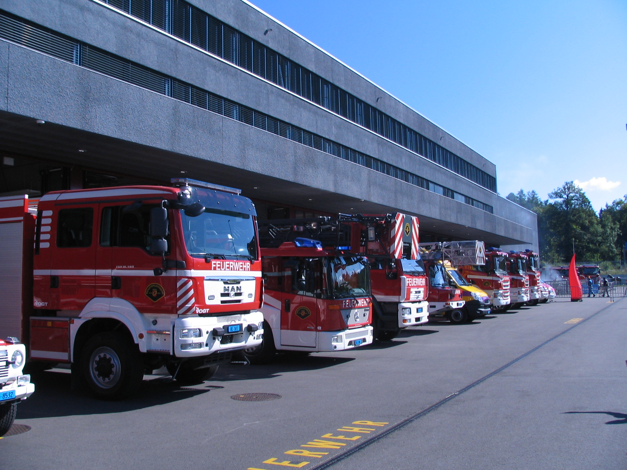 Fire-fighting vehicles in Bern (Switzerland)